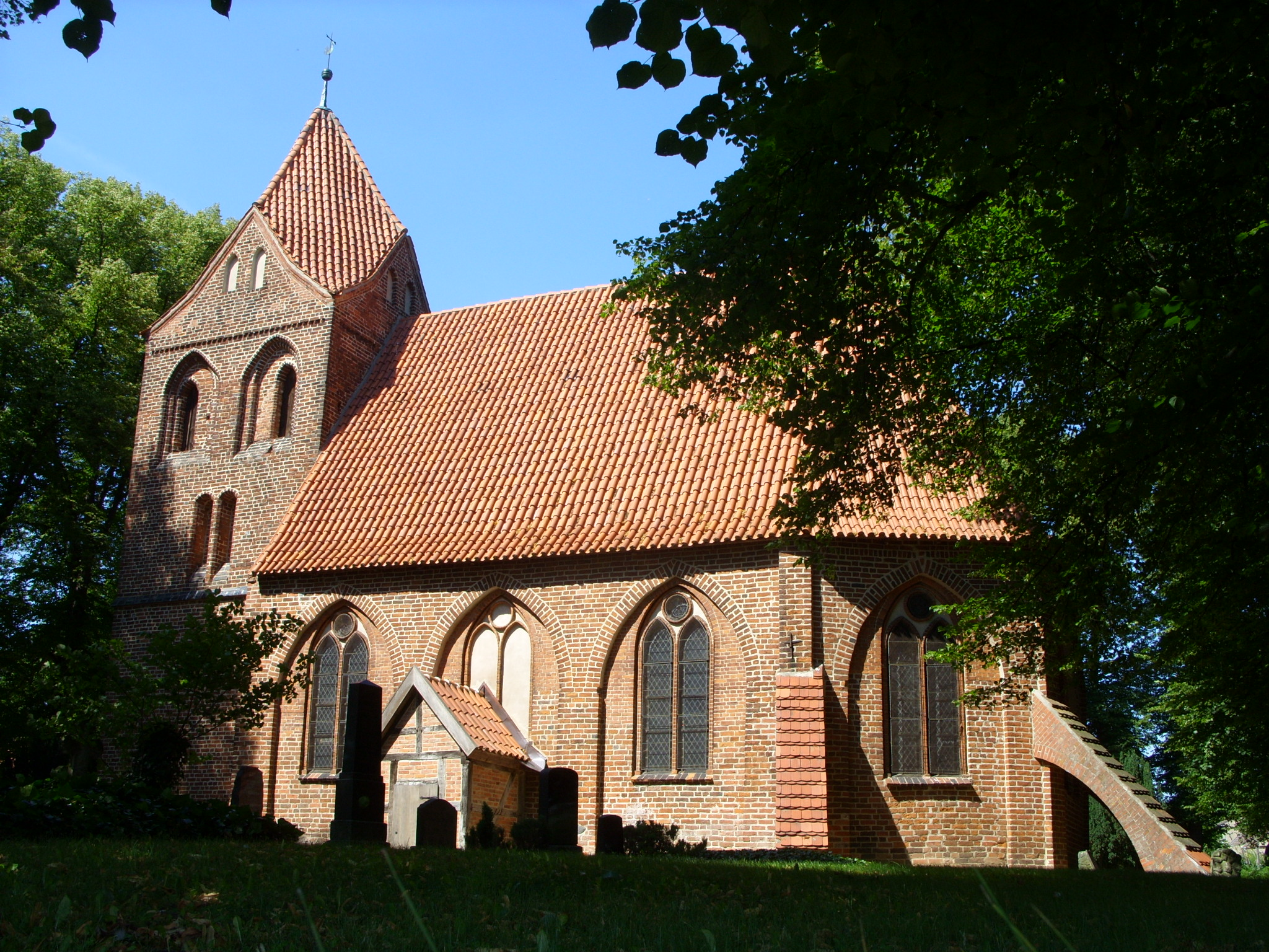 Church in Dorf Mecklenburg, district Nordwestmecklenburg, Mecklenburg-Vorpommern